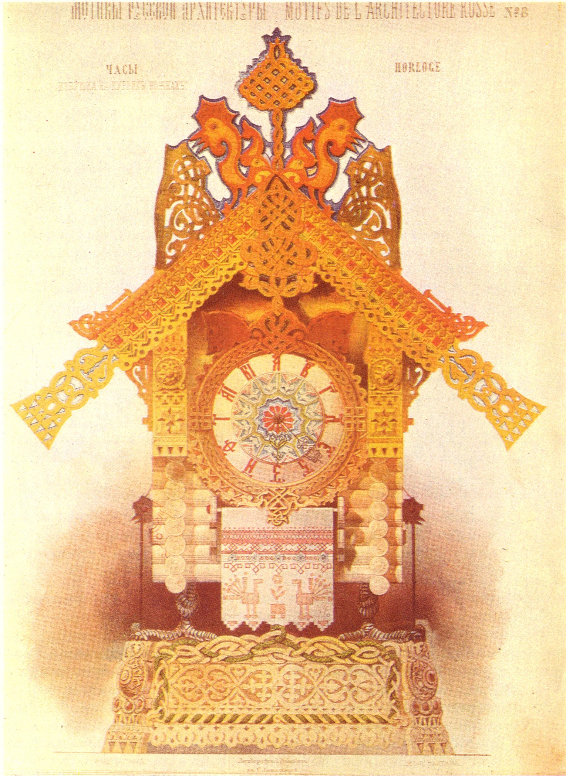 The Hut on Fowl's Legs. Clock in the Russian style